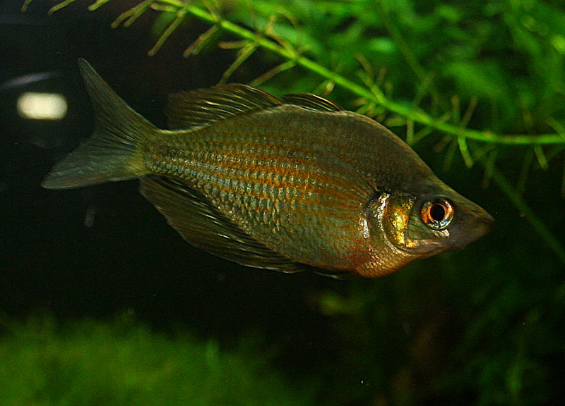 Author: Eileen Kortright (Roan Art) Subject: Glossolepis wanamensis Male "wana" (as they are referred to in the bow hobby), which should not be confused with G. multisquamatus. Also commercially referred to as "Emerald rainbowfish". Over 95% of the "Lake Wanam" rainbowfish sold in the hobby are hybrids or mislabeled Glossolepis multisquamatus.